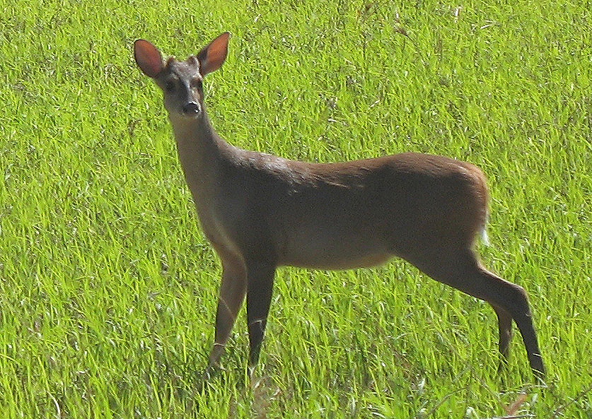 Description: Red Brocket Deer (Mazama cf. americana) Author: Whaldener Endo Year: 2006